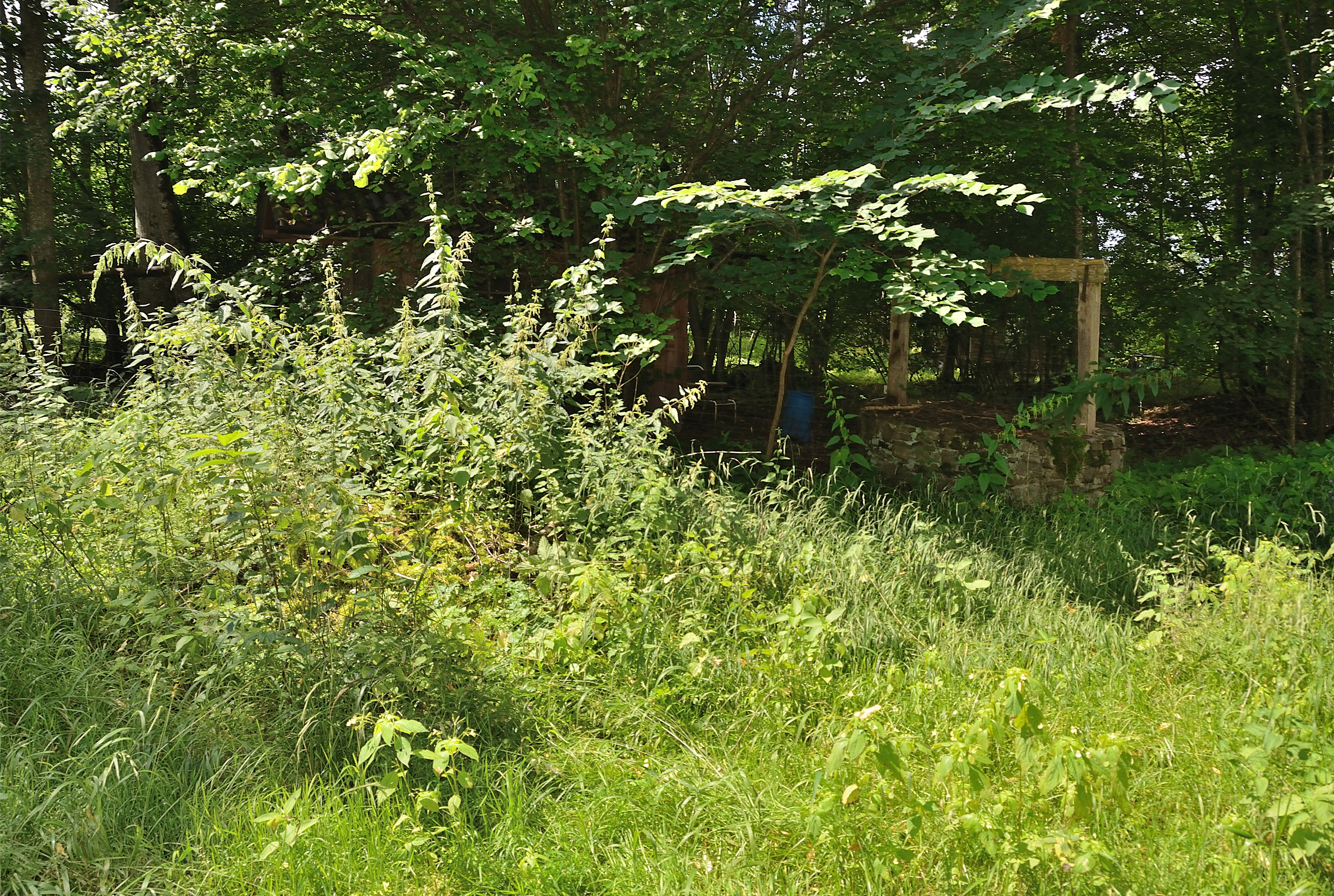 Abondoned castle Burg Altentann in Henndorf am Wallersee, Salzburg. There is only the moat and the island with the burgstall. There are some stone heaps and remainders of walls. A stone/wooden bridge leads to the island. To the East, there is a farmhouse, on all other sides there is the golf club Club Altentann. To the left a heap of stones under nettles, to the right the water well.